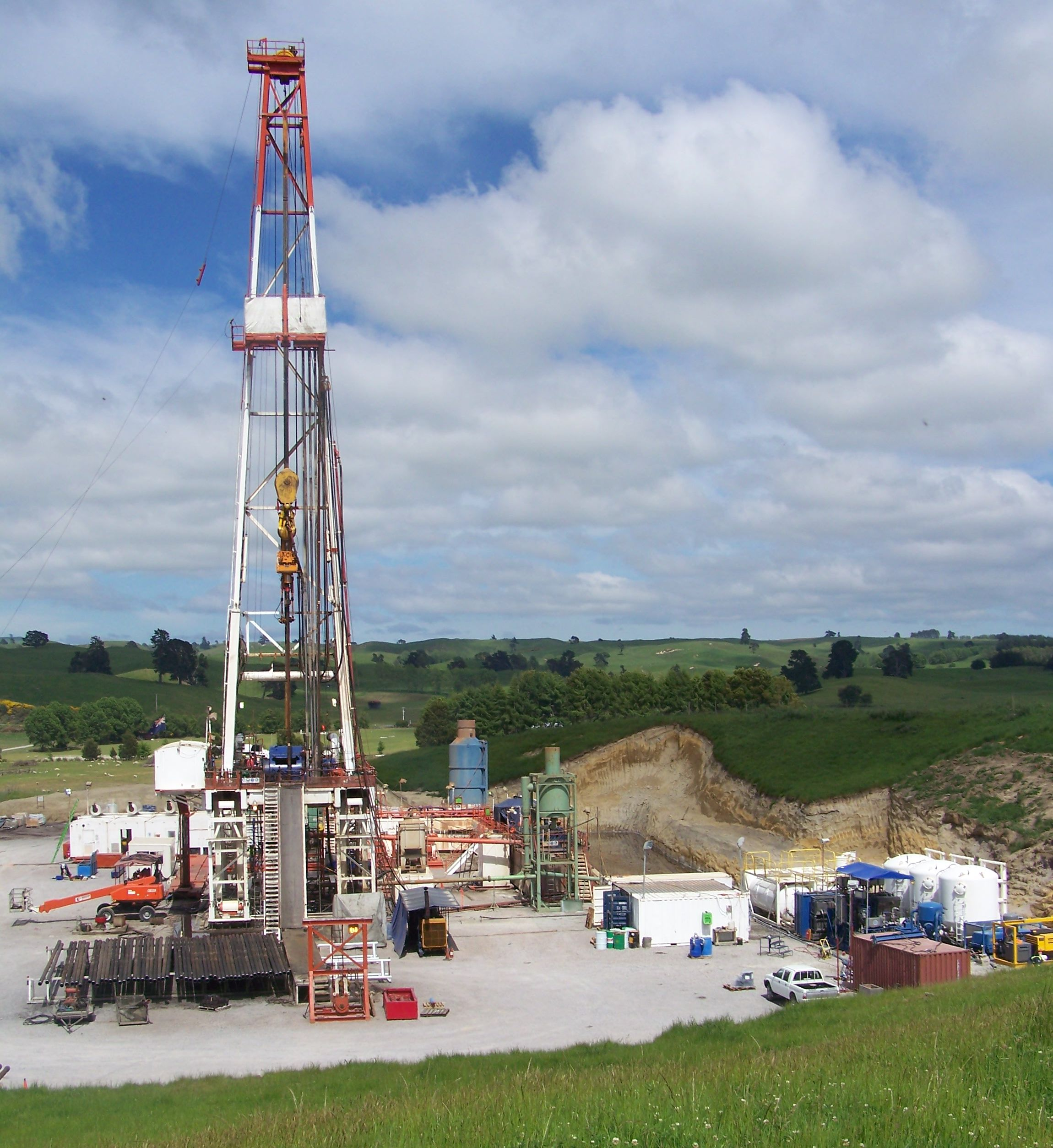 Geothermal drilling at Te Mihi west of Wairakei, New Zealand.